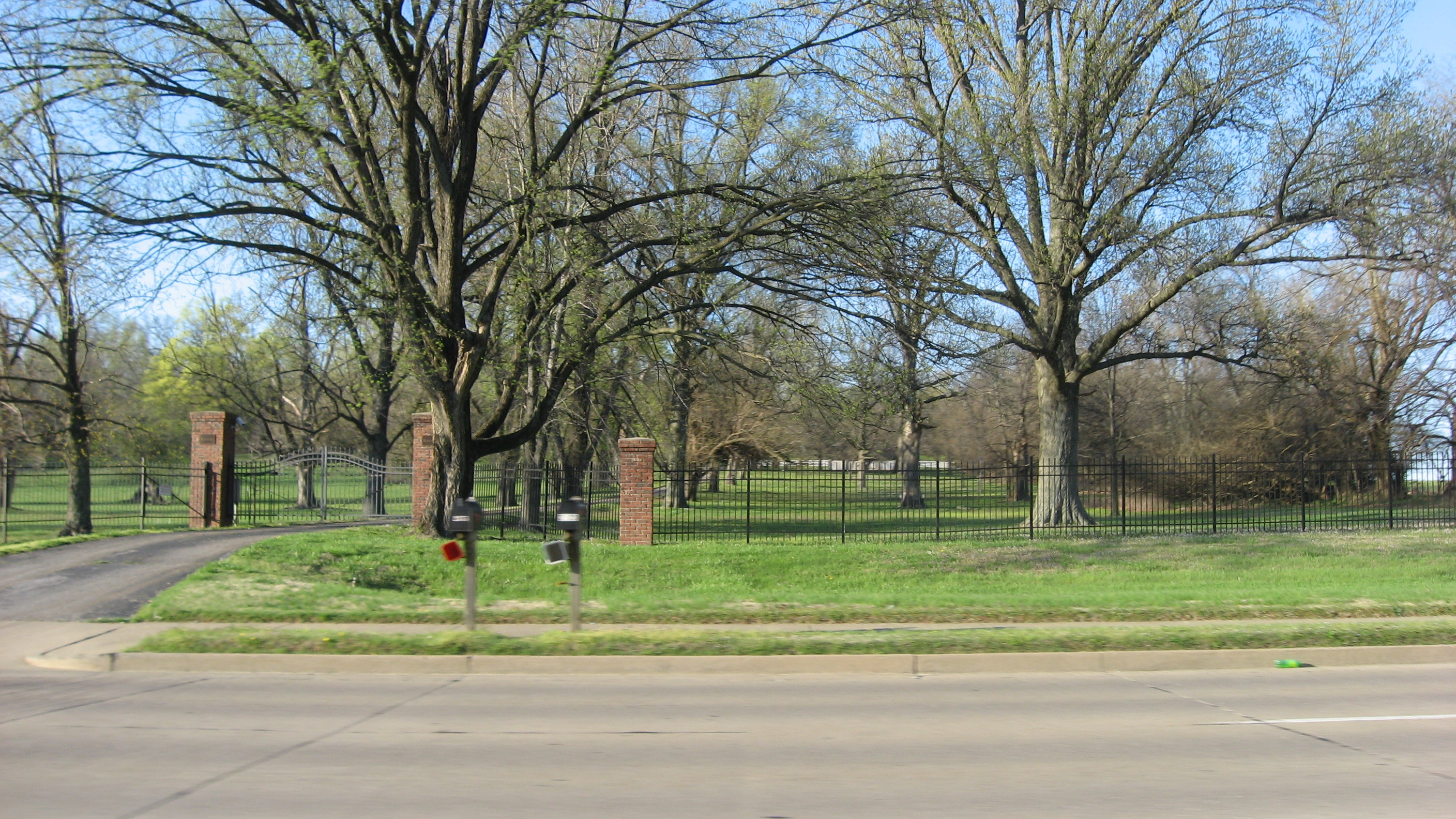 Roadside view of the William Soaper Farm, located at 2323 Zion Road (Kentucky Route 351) east of Henderson in Henderson County, Kentucky, United States. The farmstead complex is listed on the National Register of Historic Places.